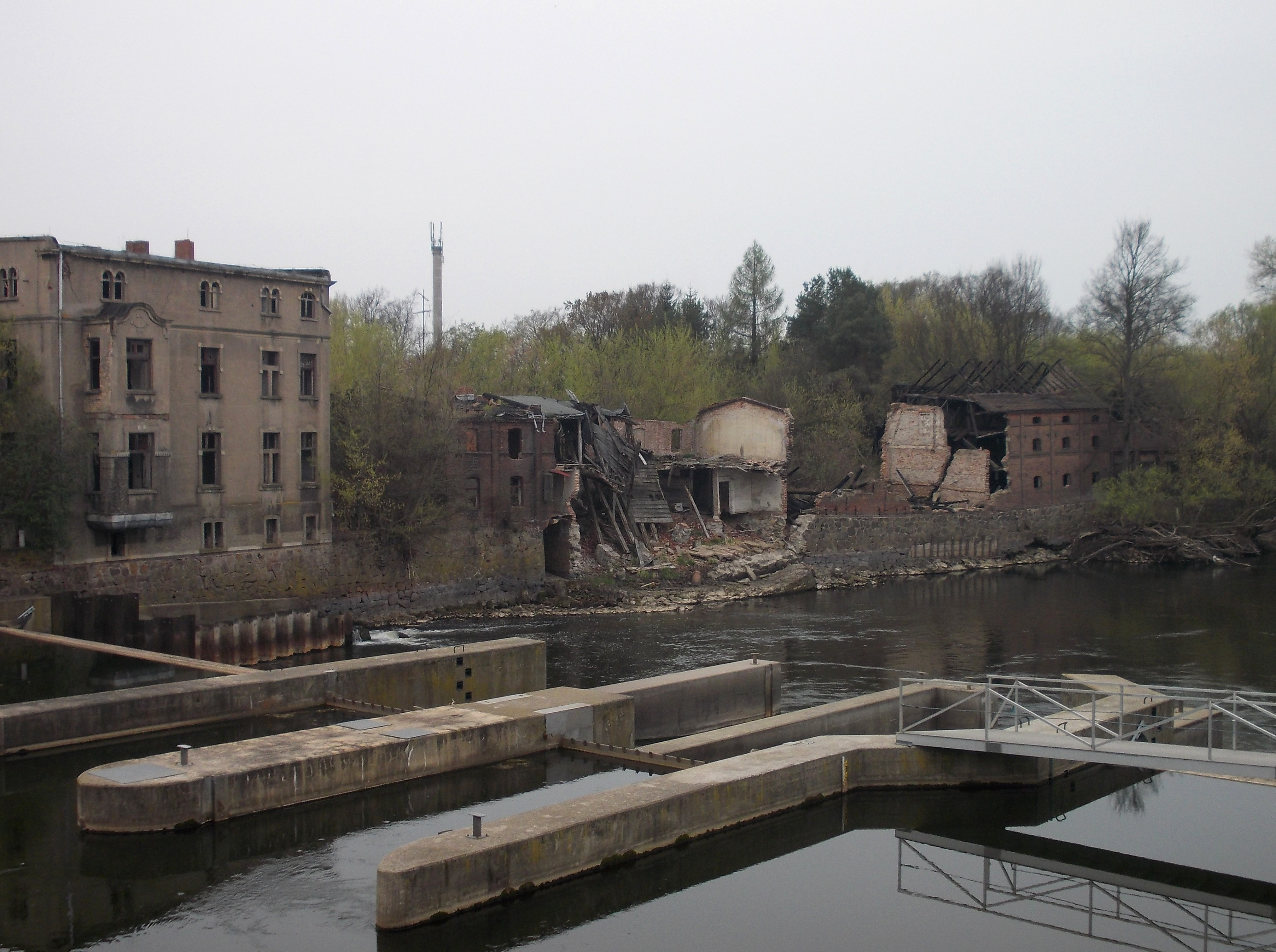 Weir and ruins of a mill on the Mulde in Jessnitz (Raguhn-Jeßnitz, Anhalt-Bitterfeld district, Saxony-Anhalt)